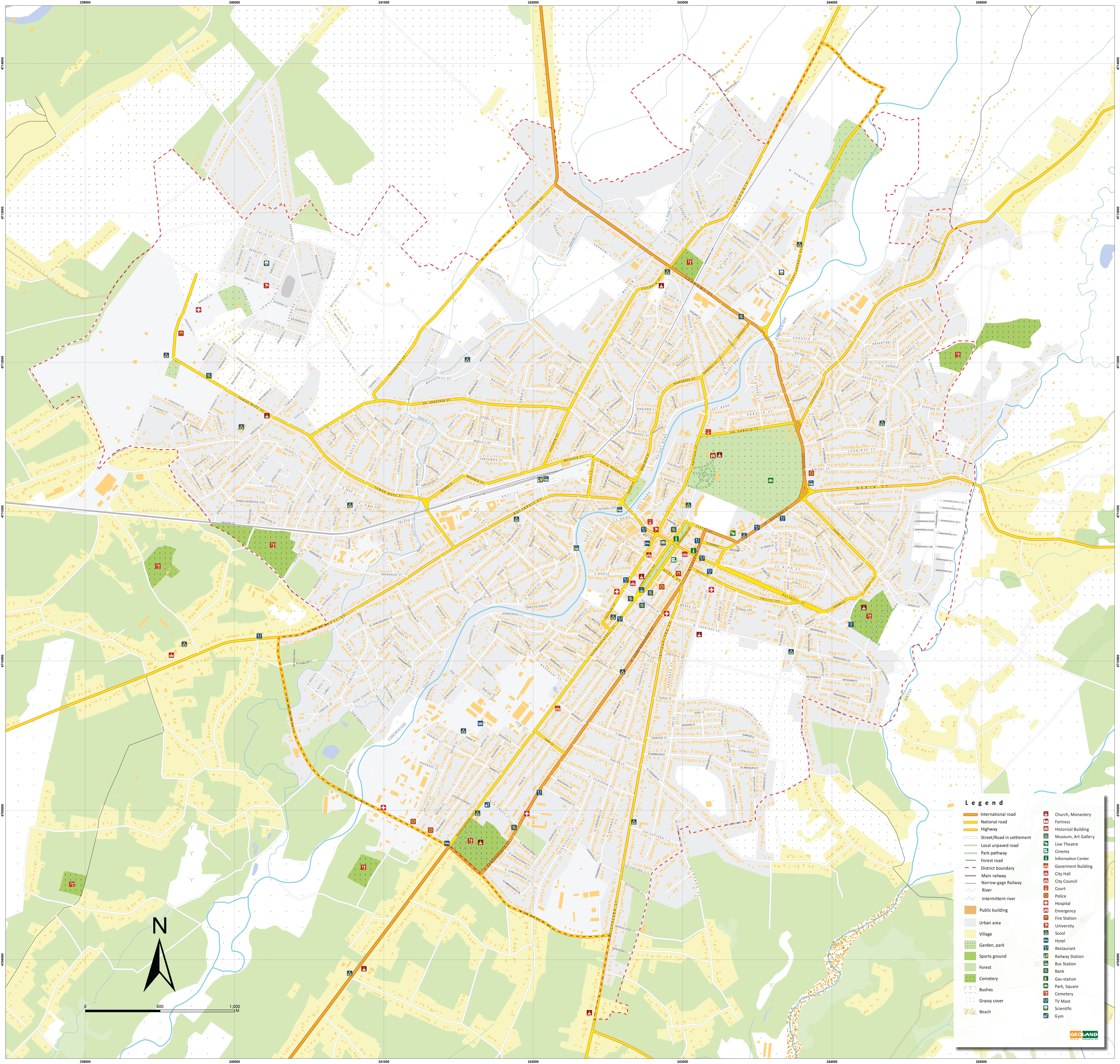 Zugdidi city map, Samegrelo-Zemo Svaneti region, Georgia